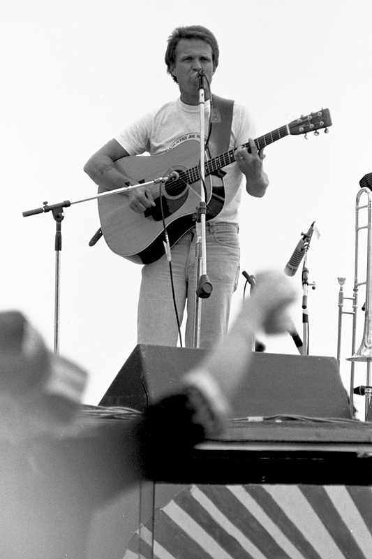 Country Joe McDonald performing in the band Country Joe and the Fish. Woodstock Reunion, 9/7/79. Parr Meadows, Ridge, NY